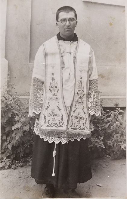 Father Ivan Gadzhov